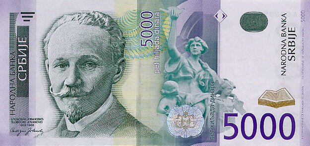 Description: 5000 Serbian dinars (RSD) Source: From the site of the National bank of Serbia